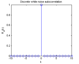 Discrete white noise autocorrelation with variance 1